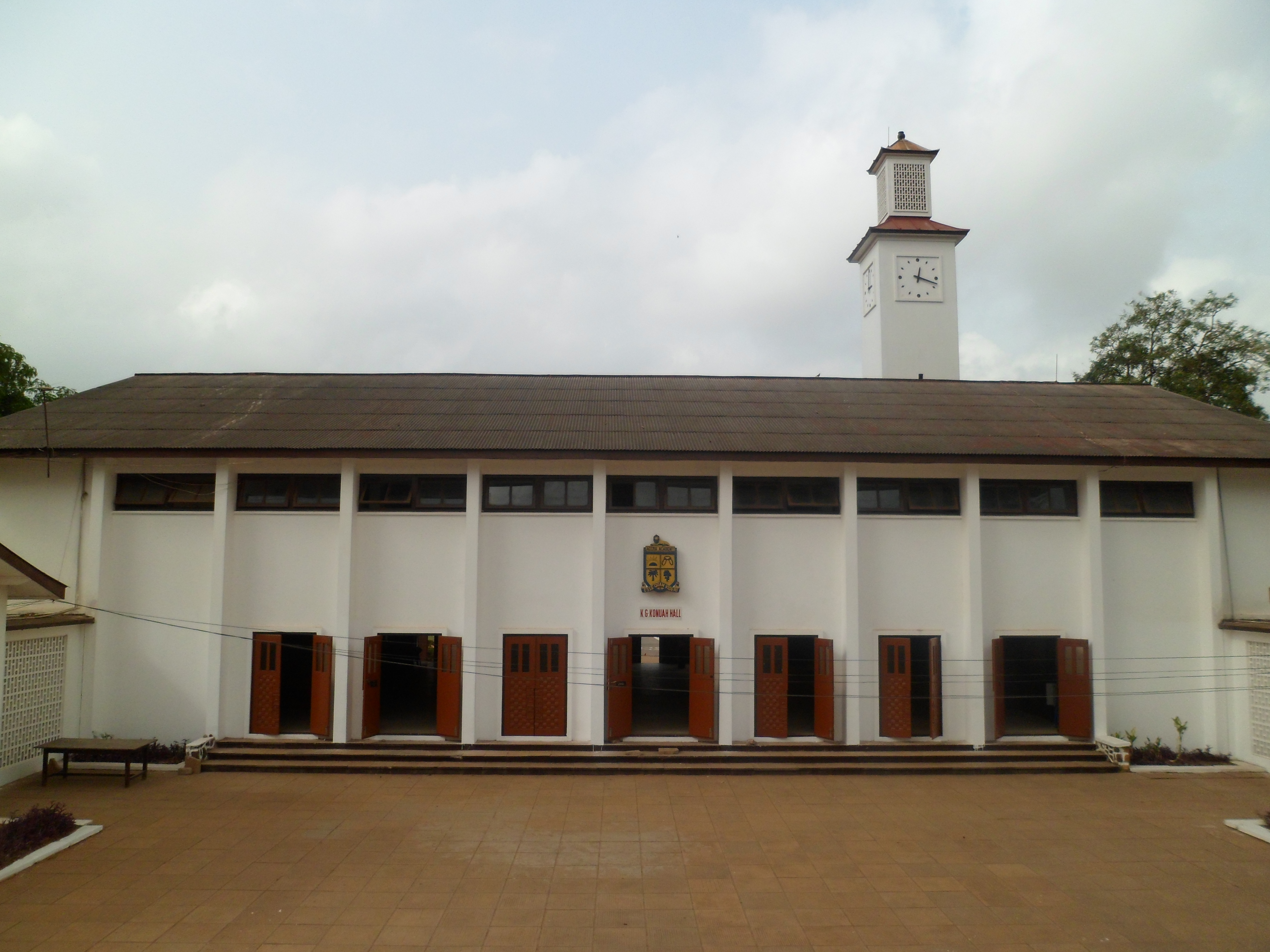 This is a photograph of the K. G. Konuah hall of Accra Academy